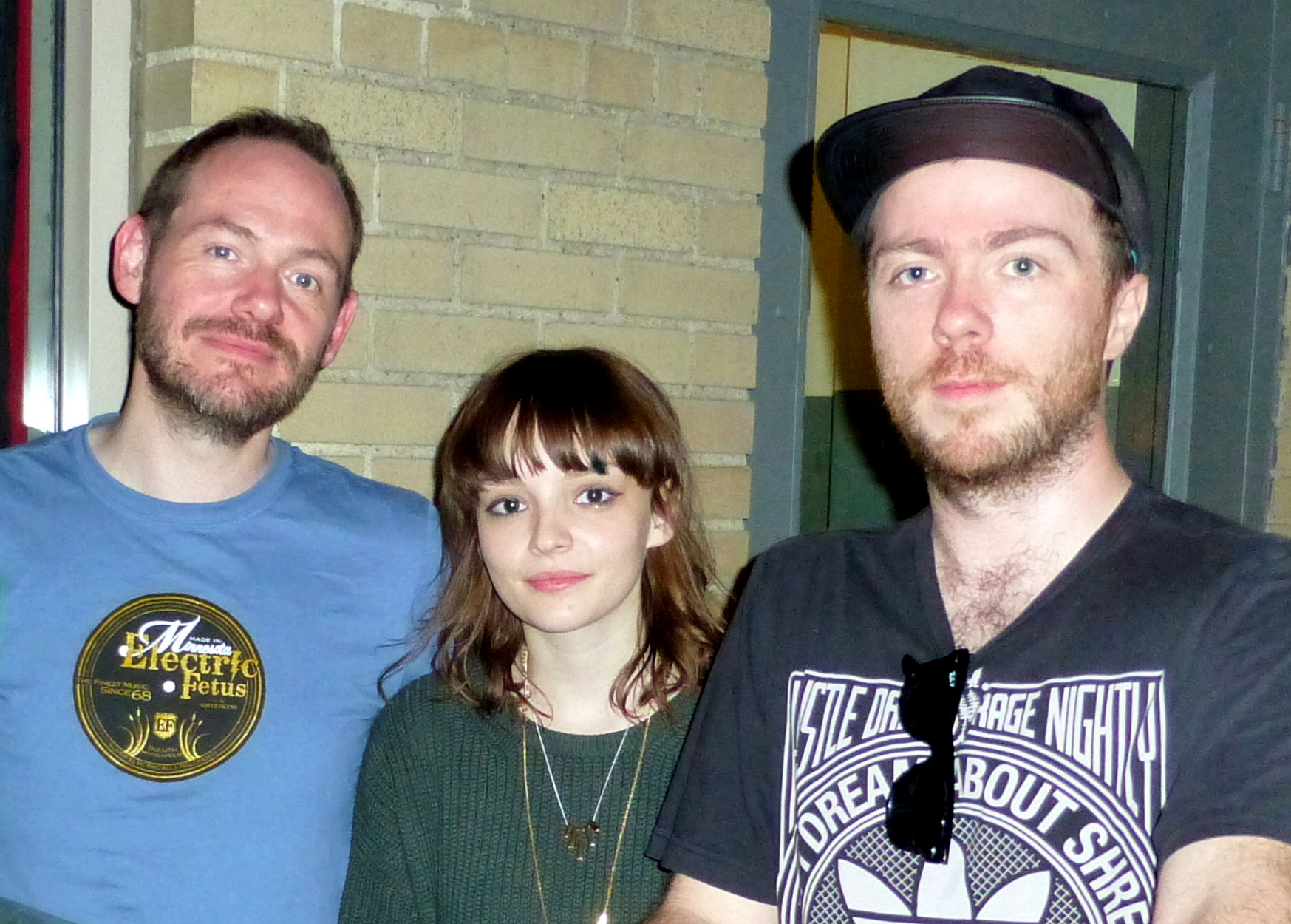 Iain Cook, Lauren Mayberry, and Martin Doherty of Chvrches at Royal Oak Music Hall in Detroit Michigan, 6/7/14